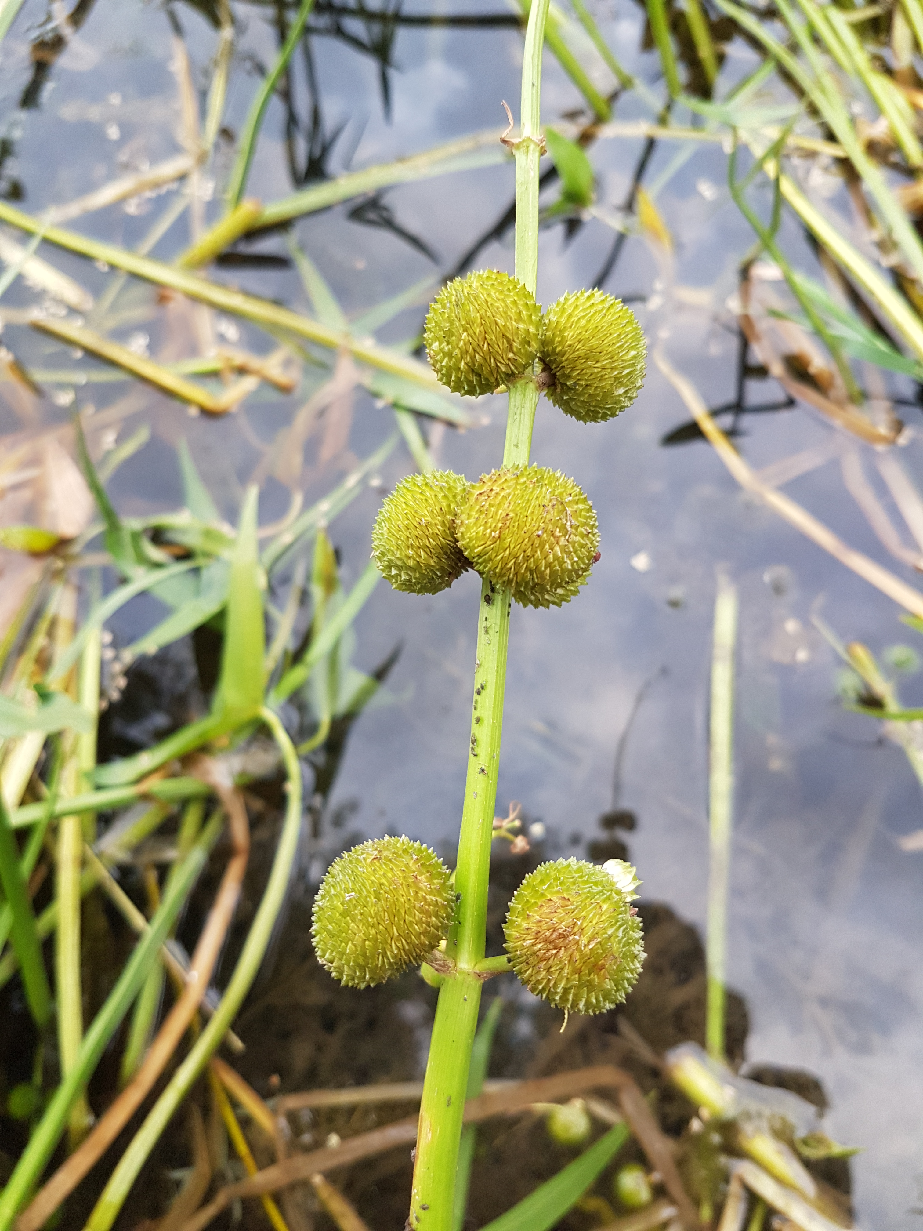 Infructescence Taxonym: Sagittaria sagittifolia ss Fischer et al. EfÖLS 2008 ISBN 978-3-85474-187-9 Location: Neue Donau, district Korneuburg, Lower Austria - ca. 160 m a.s.l. Habitat: shore